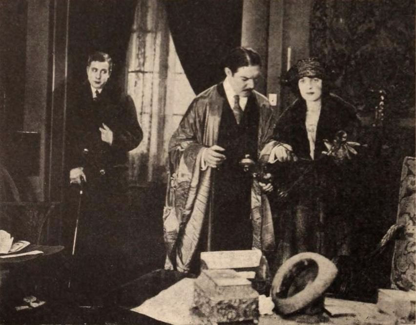 Still from the American film serial Velvet Fingers (1920) with George B. Seitz, Harry Semels, and Marguerite Courtot, on page 40 of the November 27, 1920 Exhibitors Herald.